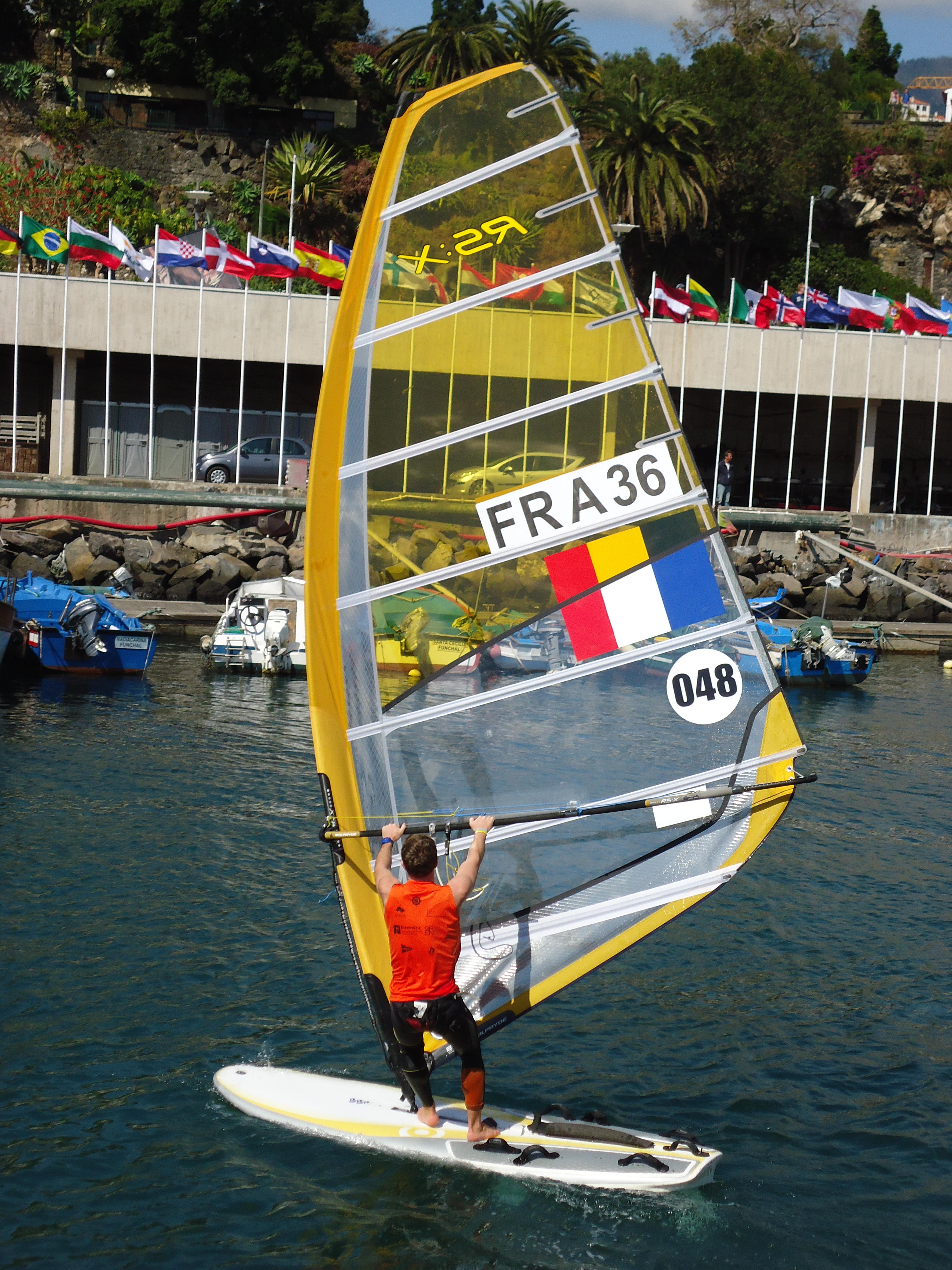 RS:X 2012 European Windsurfing Championship, Funchal, Madeira - Day 1 - Registration & Equipment Check / Practice Race SÃO LÁZARO WATER-SPORTS CENTER, Funchal, Madeira